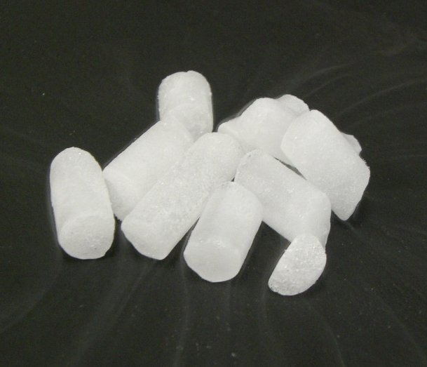 Small pellets of dry ice sublimating in air. The pellets are approx 0.5 - 1.0cm in diameter.